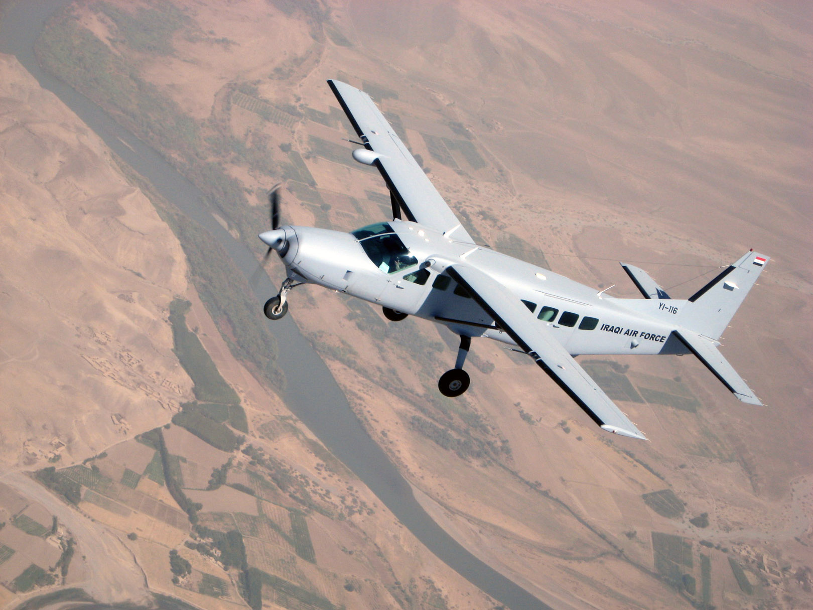 Cessna 208 Caravan YI-116 assigned to the Iraqi air force Flying Training Wing at Kirkuk Regional Air Base, Iraq, flies over northern Iraq during a recent training mission.